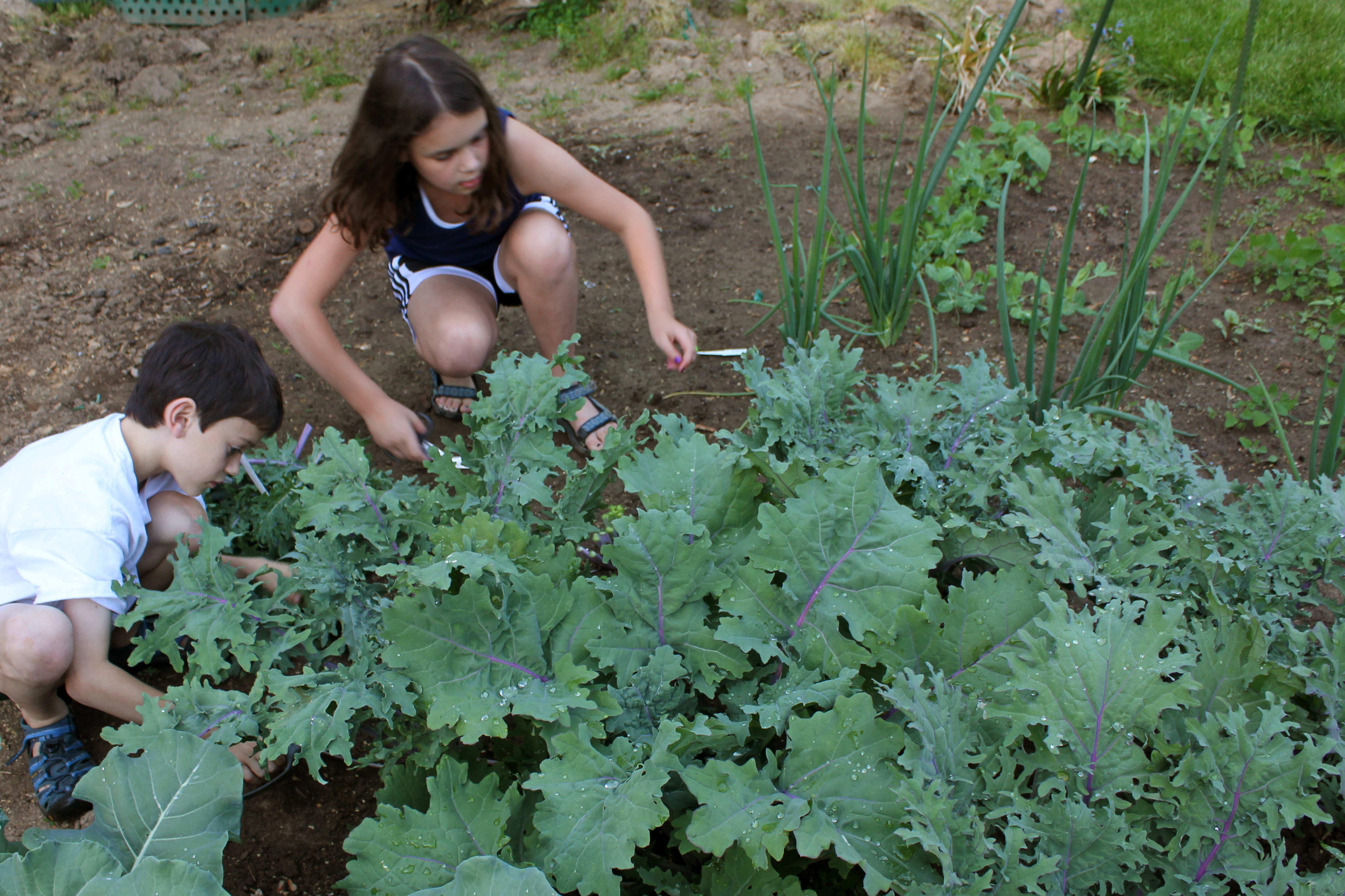 Kids harvesting kale from a family garden